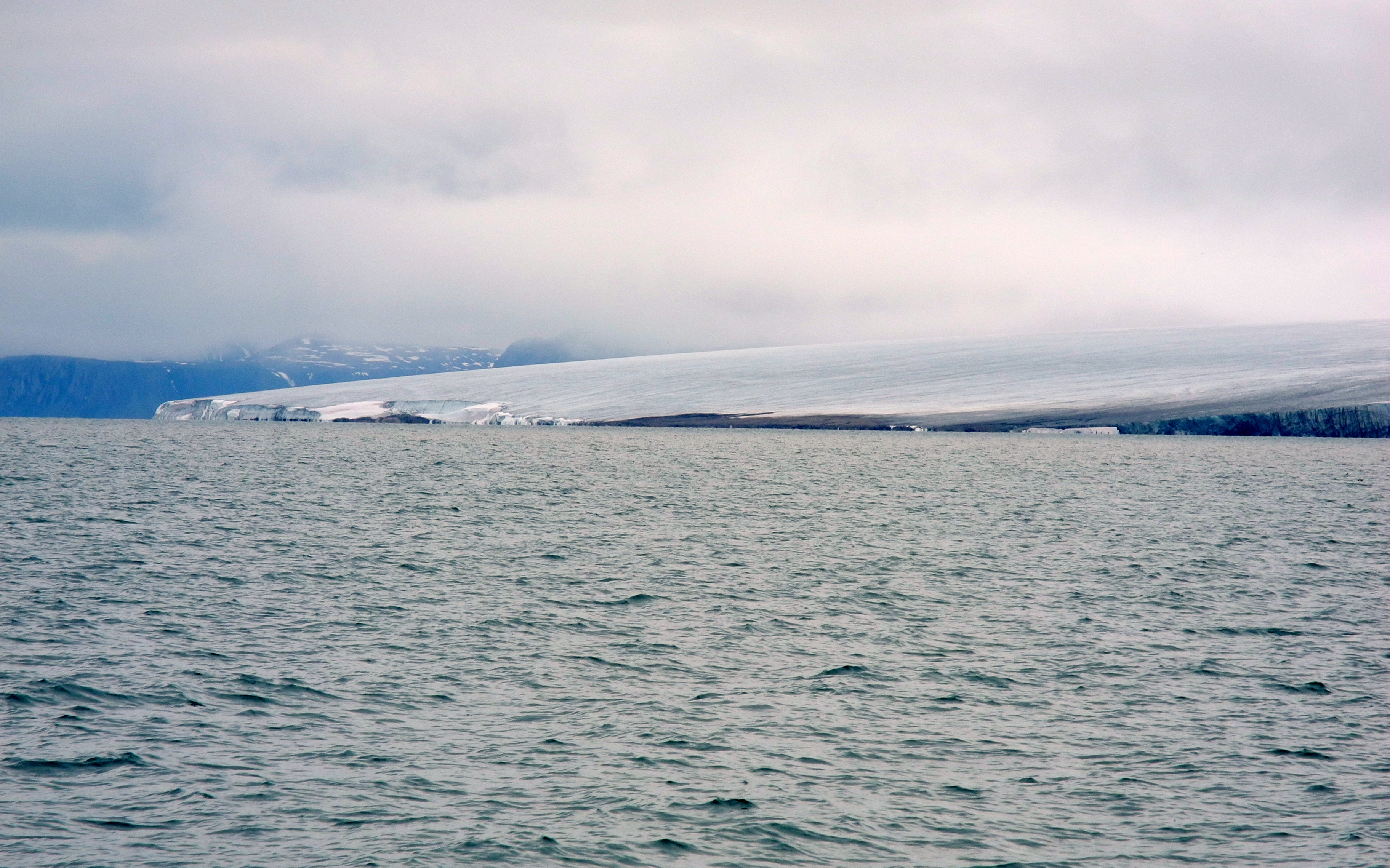 Hinlopenstretet with the peninsula Gotiahalvøya on Nordaustlandet.